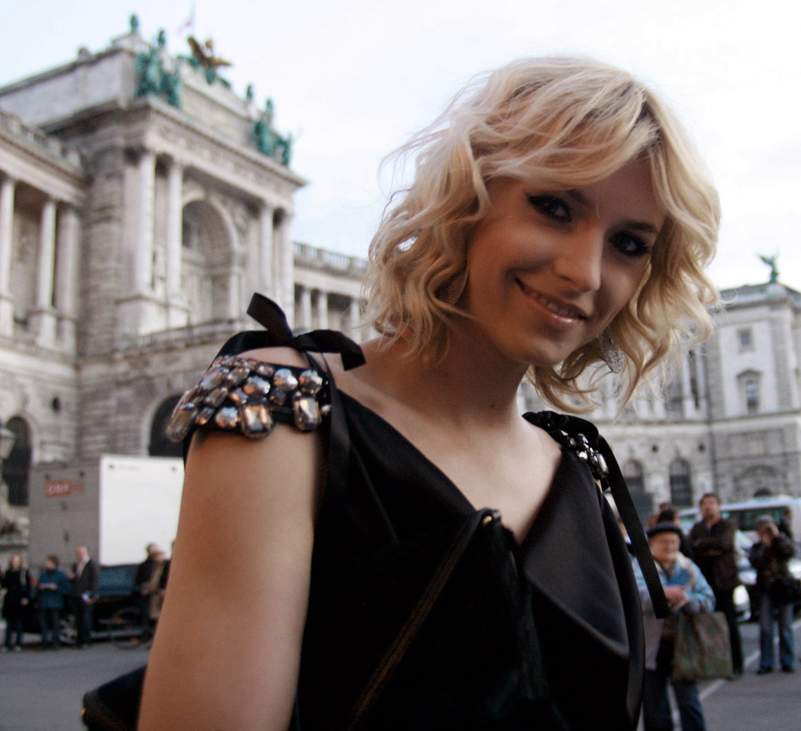 Lena Gercke at the Romy TV awards (Hofburg Imperial Palace in Vienna)